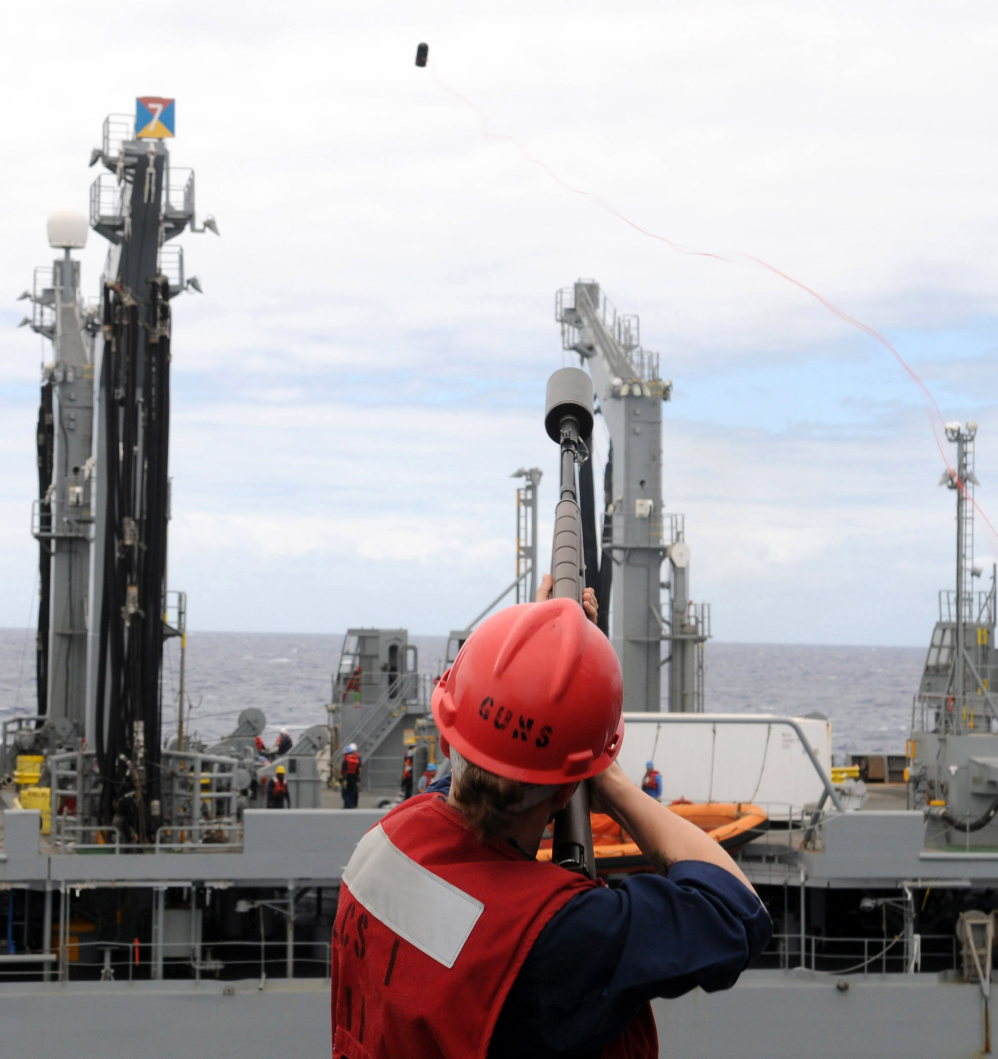 PACIFIC OCEAN (June 23, 2010) Chief Fire Controlman Michelle Fox, assigned to the littoral combat ship USS Freedom (LCS 1), fires a shot line to the military sealift command fleet replenishment oiler USNS Guadalupe (T-AO 200) during a refueling at sea. Freedom is scheduled to participate in Rim of the Pacific (RIMPAC) 2010, the world's largest international maritime exercise. (U.S. Navy photo by Lt. Ed Early/Released)